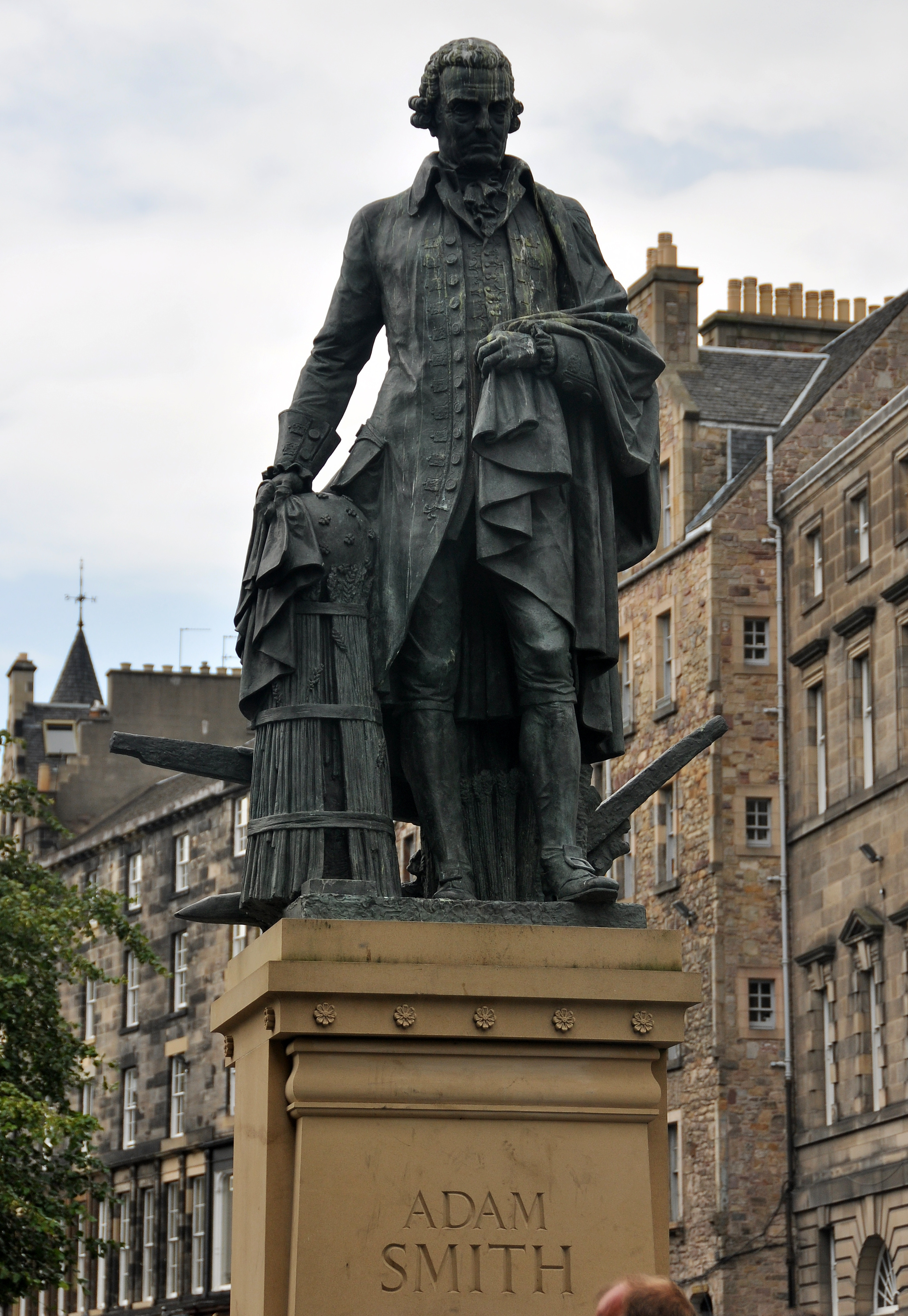 Statue of Adam Smith in Edinburgh